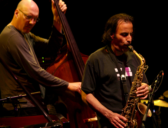 Dave Binney and Scott Colley, live in Budapest 2008